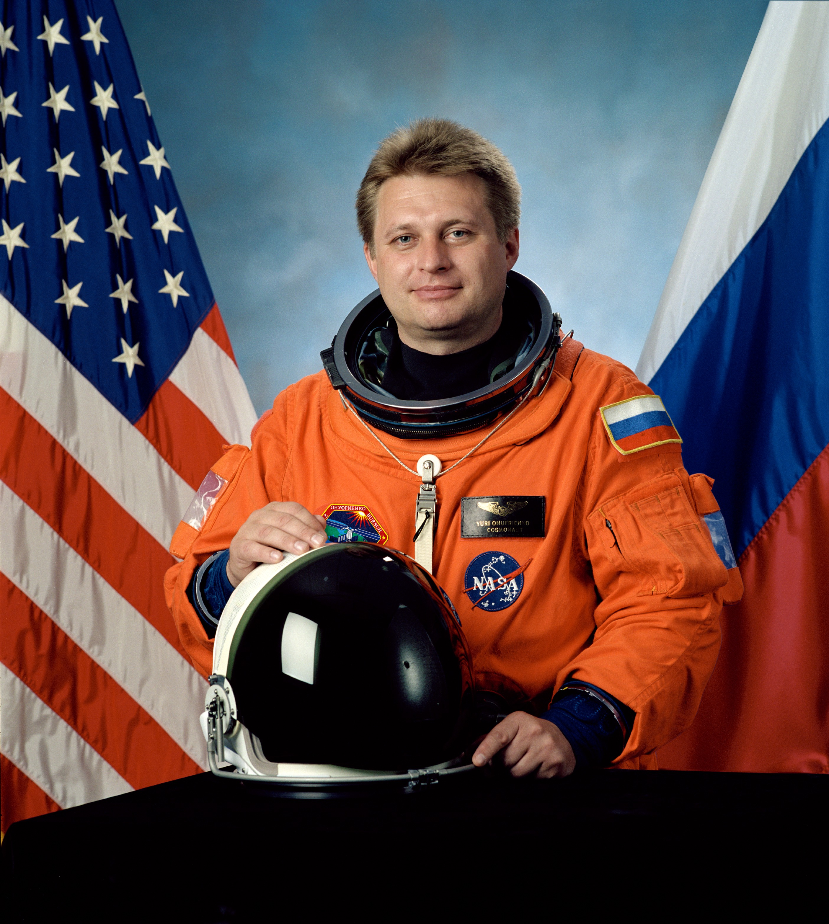 Cosmonaut Yuri I. Onufrienko of Rosaviakosmos will serve as commander of Expedition Four at the end of 2001 and the first part of 2002.